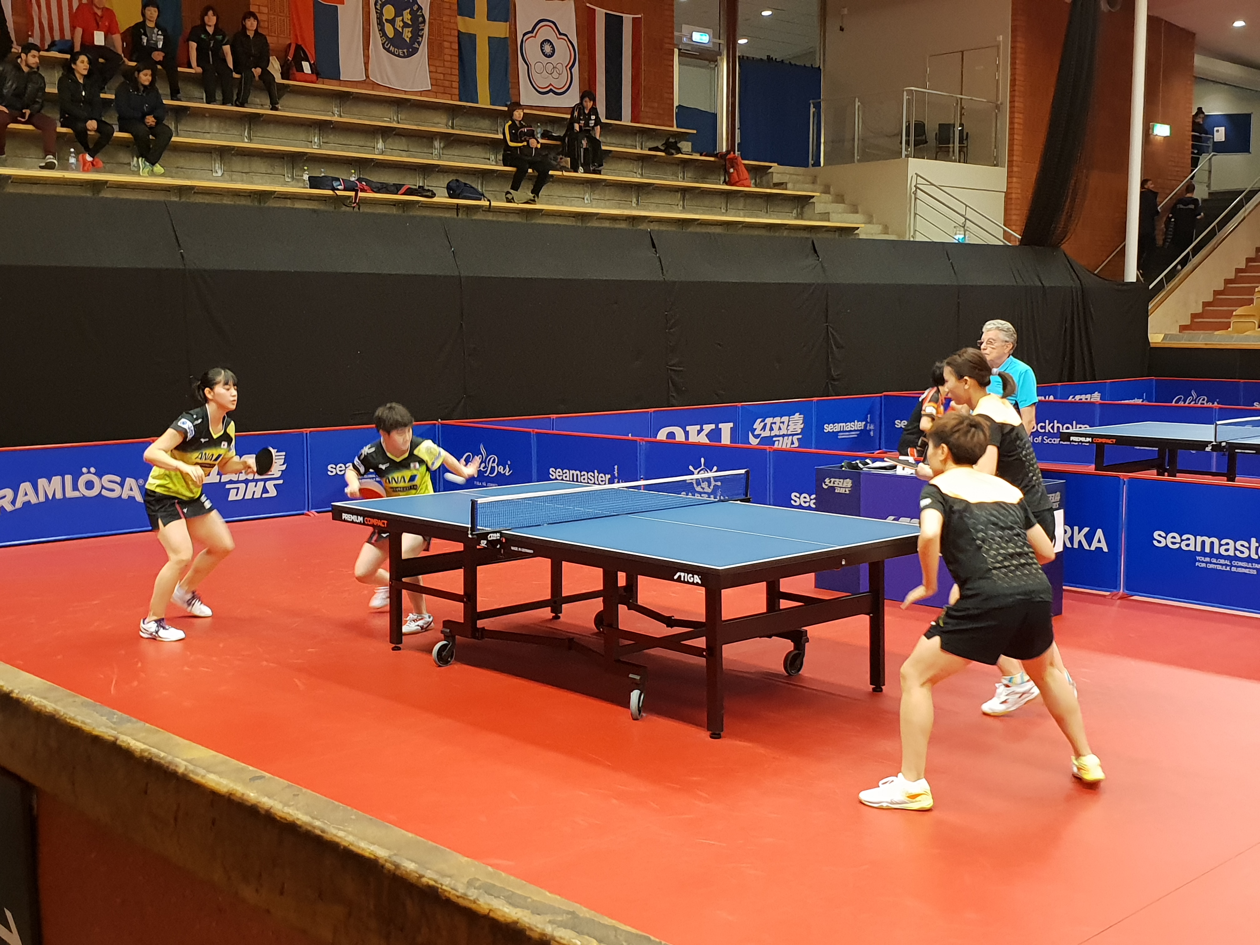 Swedish Open Championships, played in Eriksdalshallen, Stockholm in October 29 to November 4 2018. Women's Doubles Round 2, game between Miyu Nagasaki and Satsuki Odo from Japan (in yellow shirts) and Liu Gaoyang and Zhang Rui from China.